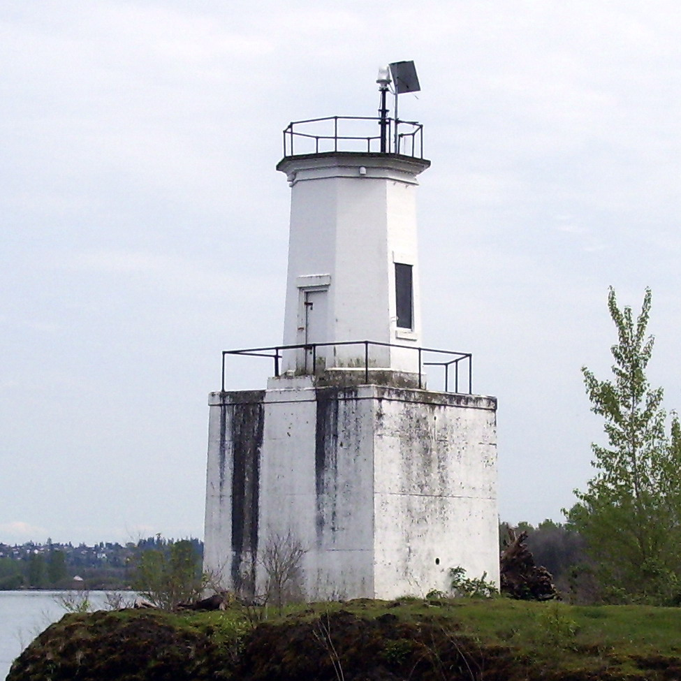 Closer cropped version of image:Warrior rock lighthouse north view P2617.jpeg for use with DYK, a Medium view of Warrior Rock Light as seen from north.